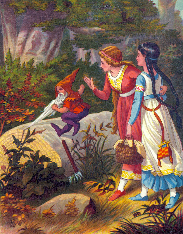 From Josephine Pollard's children's book Hours in Fairy Land: Enchanted Princess, White Rose and Red Rose, Six Swans (1883). Artist unknown. This illustration is from the Grimm fairy tale "Snow White and Rose Red".